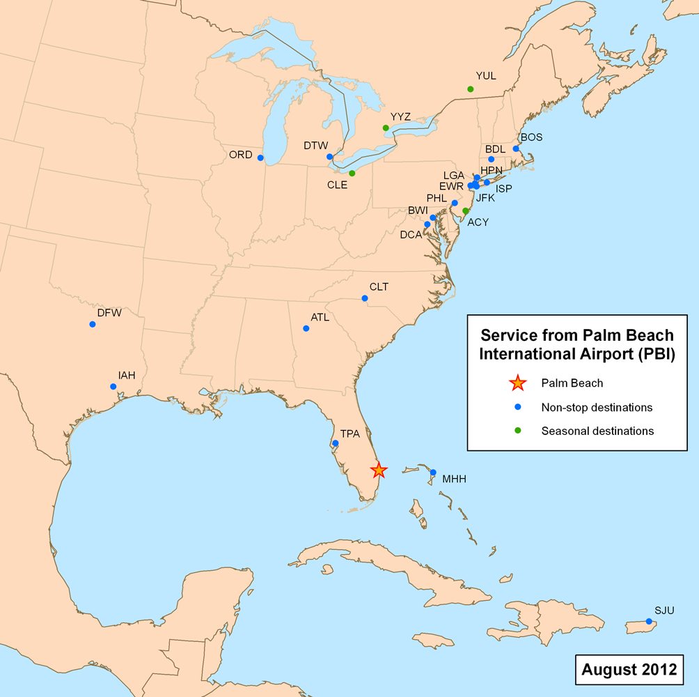 This is a route map for Palm Beach International Airport as of February 2010. Map is an Azimuthal equidistant projection centered on the airport so straight lines from Palm Beach are along great circle routes.